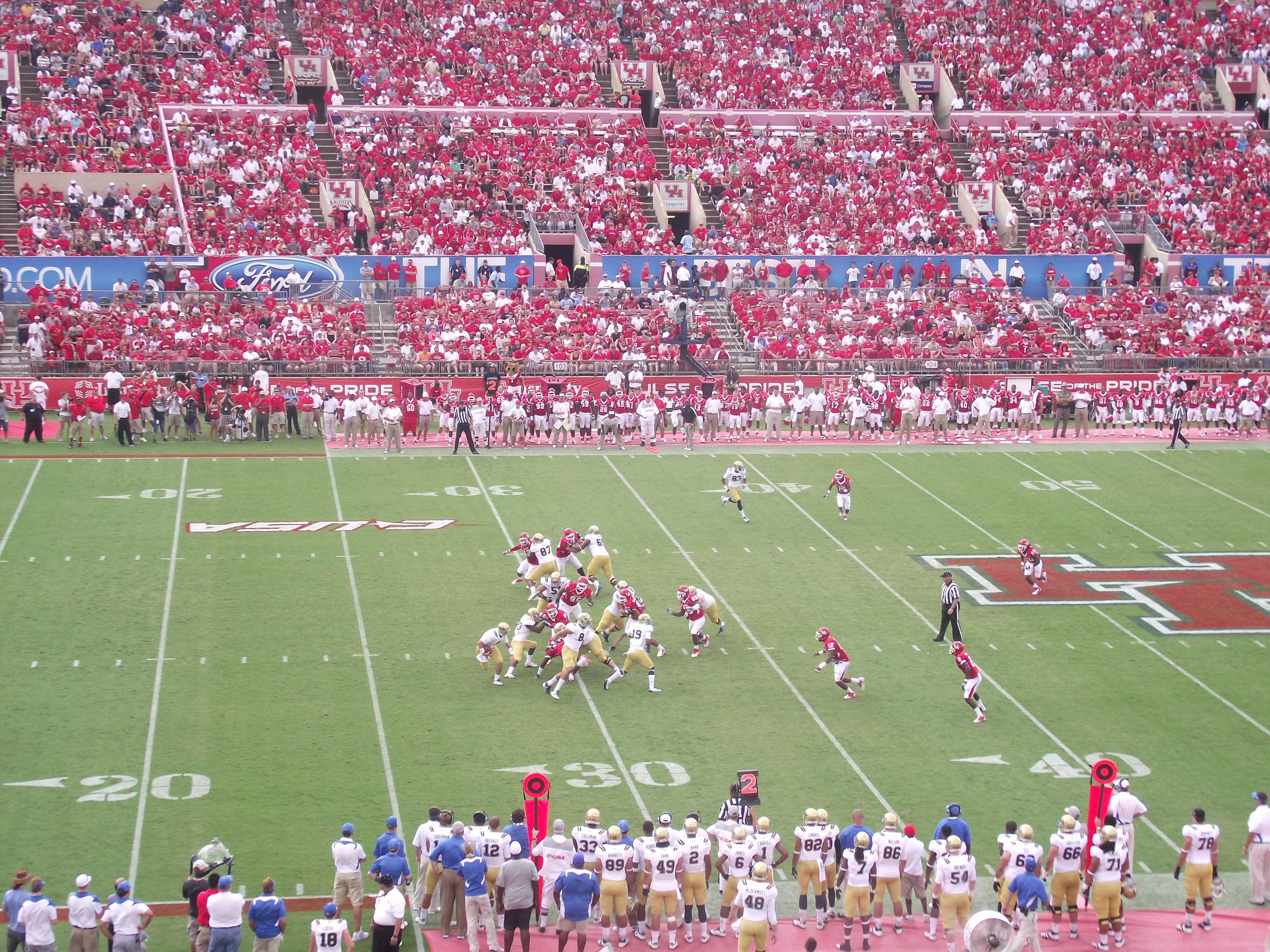 The 2011 Houston Cougars football team defense competing against the UCLA Bruins.